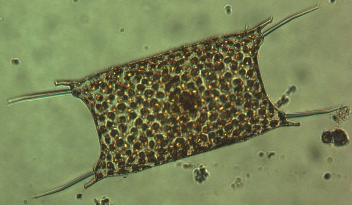 Odontella mobiliensis preserved by lugol solution. A field sample from Long Island Sound.